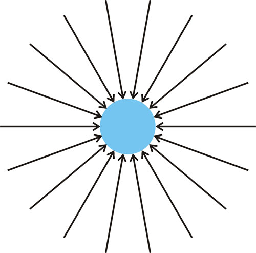 Isotropic Radiation, no net force in Le Sage gravity